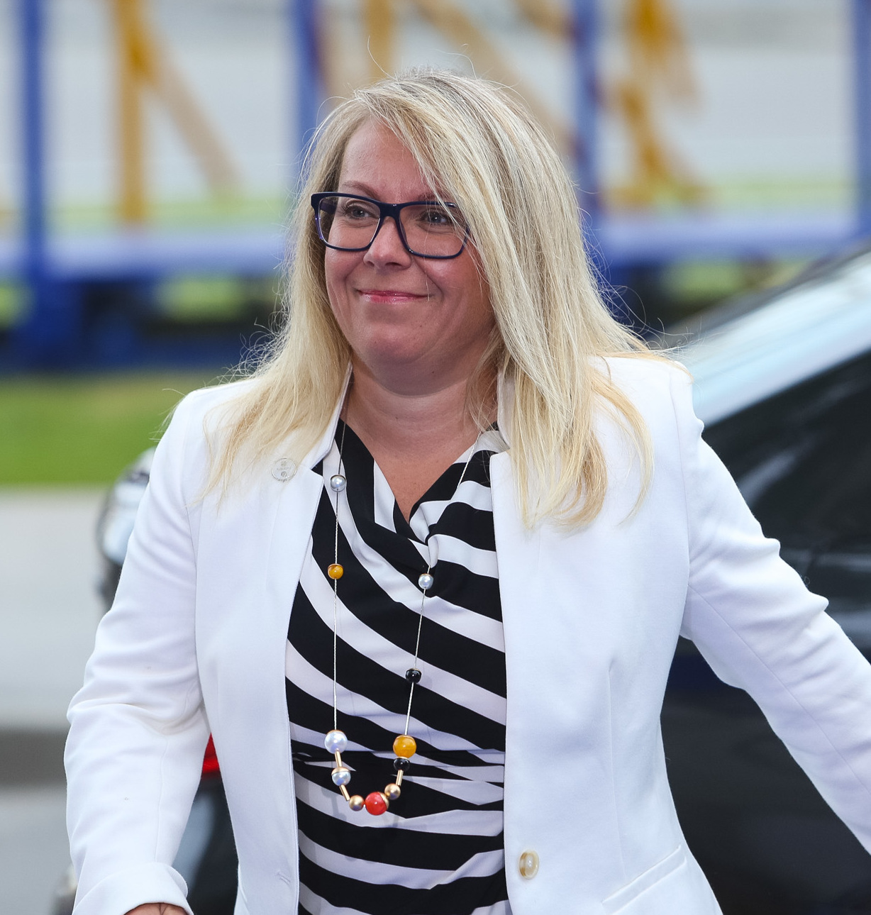 Sigríður Á. Andersen, Minster, Ministry of Justice, Iceland